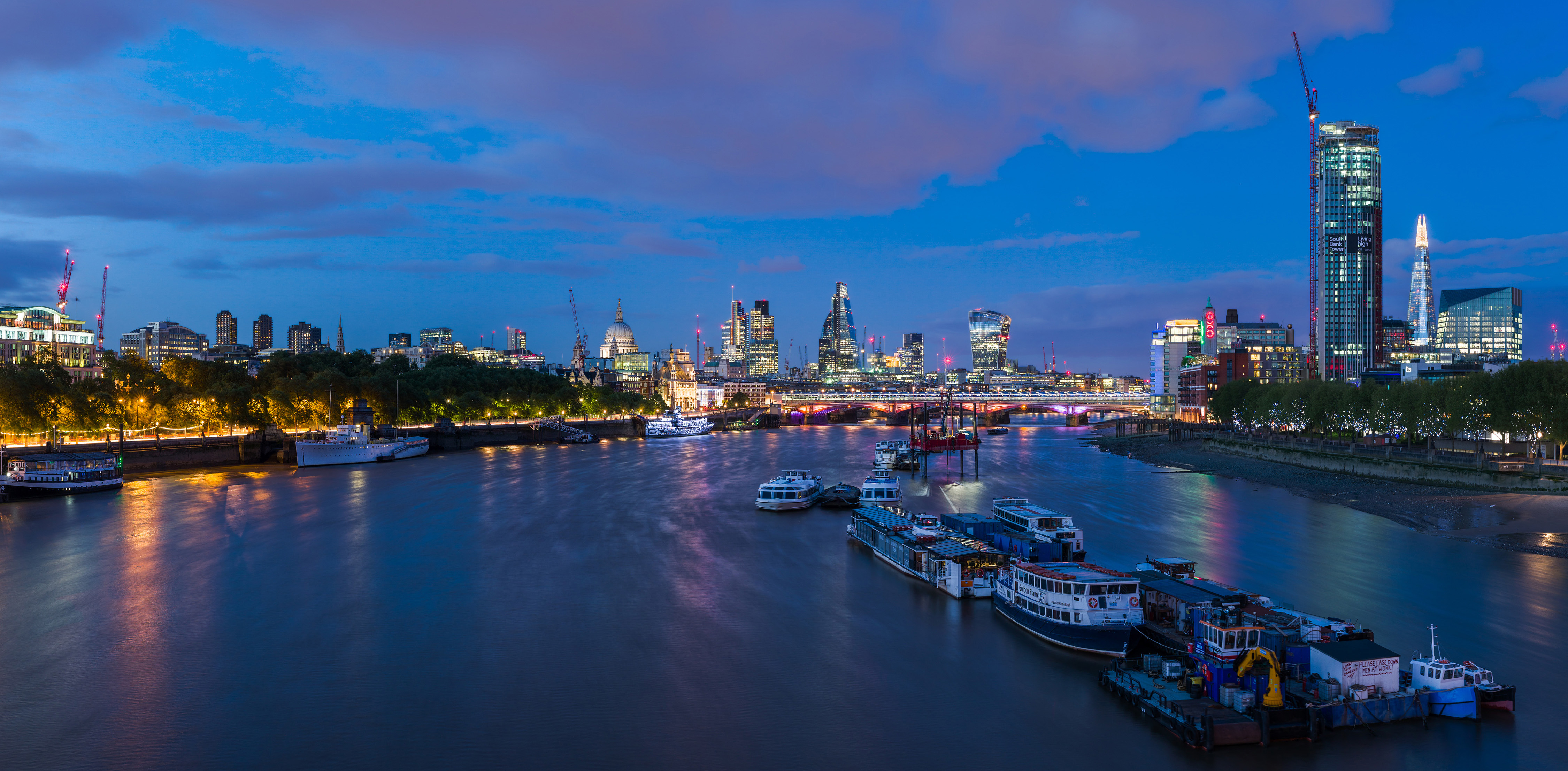 The skyline of London viewed along the Thames from Waterloo Bridge in London, England.